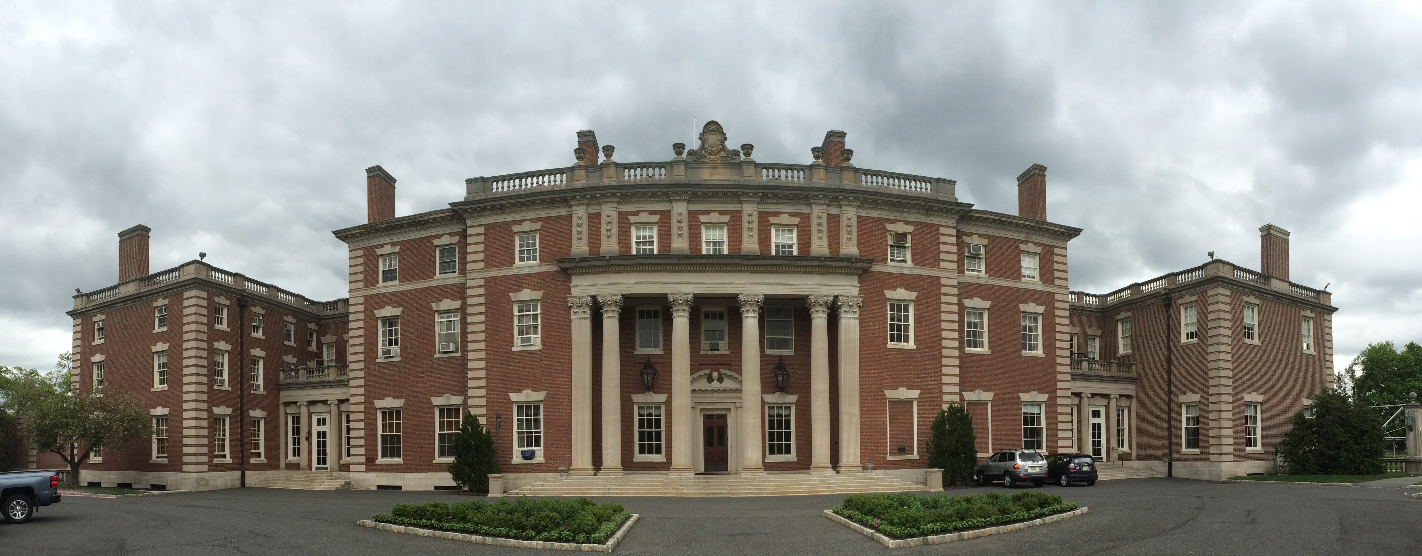 Panorama of Florham, Fairleigh Dickinson University